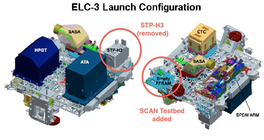 View of the ELC-3 in its launch configuration